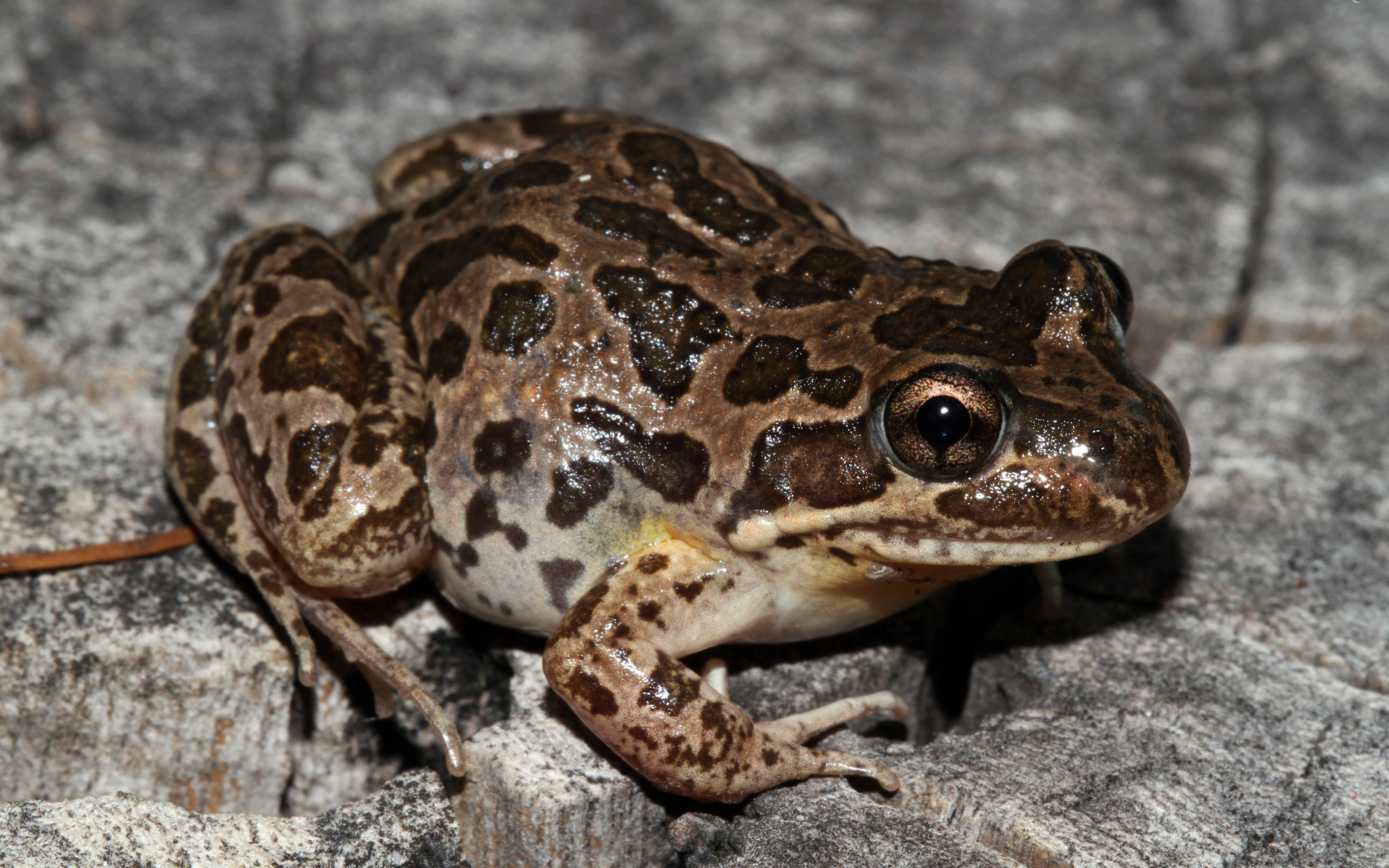 Murray River Floodplains, Echuca Vic.